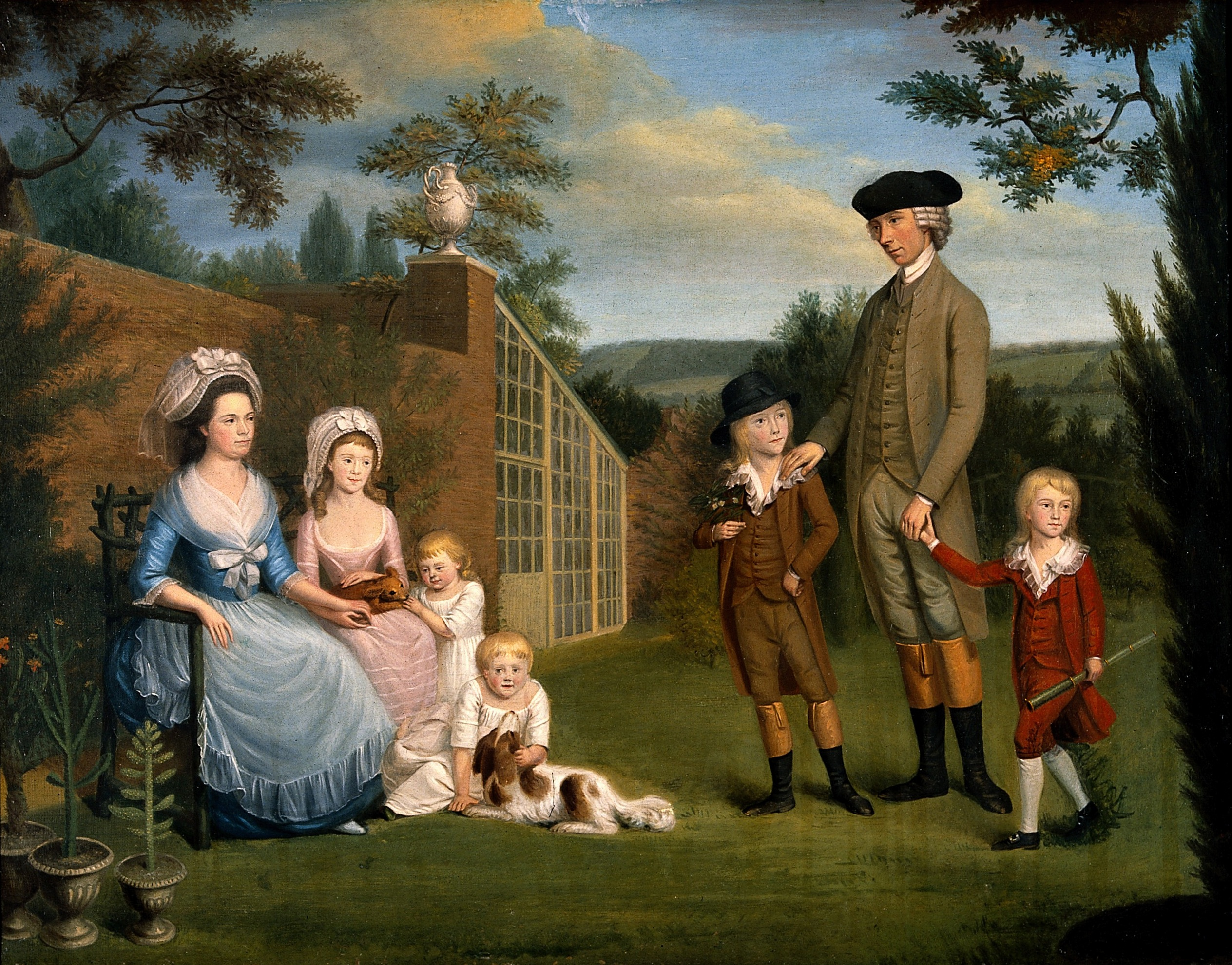 John Coakley Lettsom (1733-1810), physician, with his family, in the garden of Grove Hill, Camberwell, ca. 1786. Oil painting by an English painter, ca. 1786. Iconographic Collections Keywords: Ann Miers Lettsom; John Miers Lettsom; Pickering Lettsom; Eliza Lettsom; Edward Lettsom; Mary Anne Lettsom; Samuel Fothergill Lettsom; John Coakley Lettsom Left to right: Ann Miers Lettsom (wife of John Coakley Lettsom), Mary Ann Lettsom, Eliza (?) Lettsom (so identified by Abraham, though having been born in November 1785 she seems to have been too young: Edward Lettsom, b. 1781, seems more likely), Pickering Lettsom, John Miers Lettsom, John Coakley Lettsom, and Samuel Fothergill Lettsom